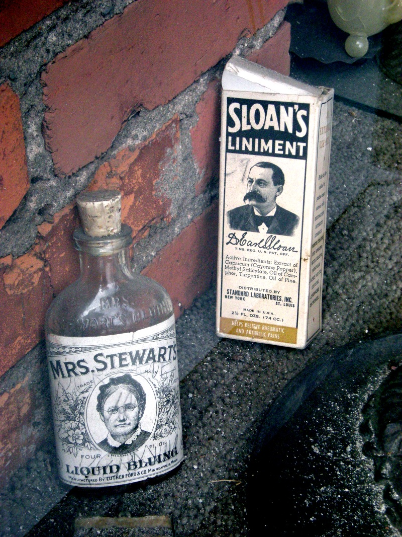 Two patent medicines, Sloan's Liniment and Mrs. Stewart's Liquid Bluing in the window of Herb Knudson's Surgical Appliance & Hospital Equipment. Herb Knudson's Surgical Appliance & Hospital Equipment (usually just Herb Knudson's Surgical) is located at 2909 Hewitt Avenue, Everett, Washington, USA, in one of the buildings listed on the National Register of Historic Places as the "Swalwell Block and Adjoining Commercial Buildings". The displays in the windows at the front of the store function as something of a mini-museum of pharmacy and medical equipment.